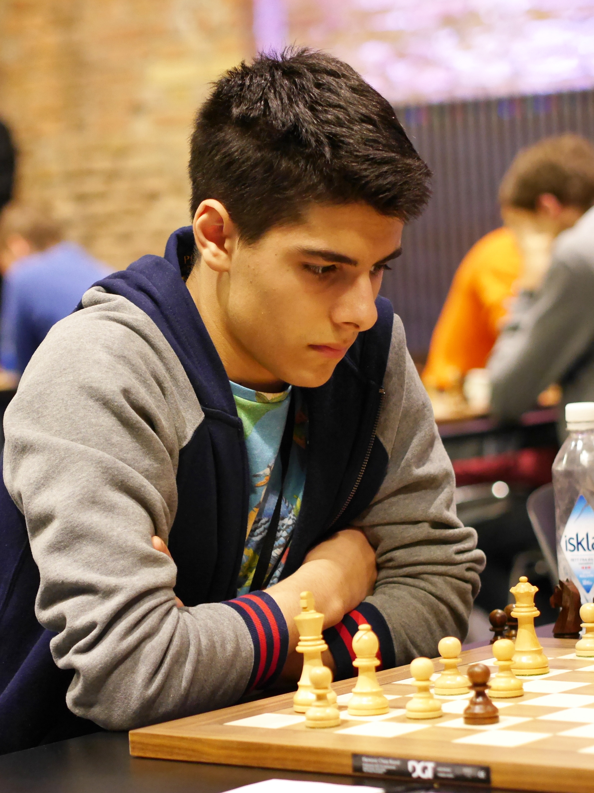 Aryan Tari at the FIDE World Rapid Chess Championship 2015 in Berlin